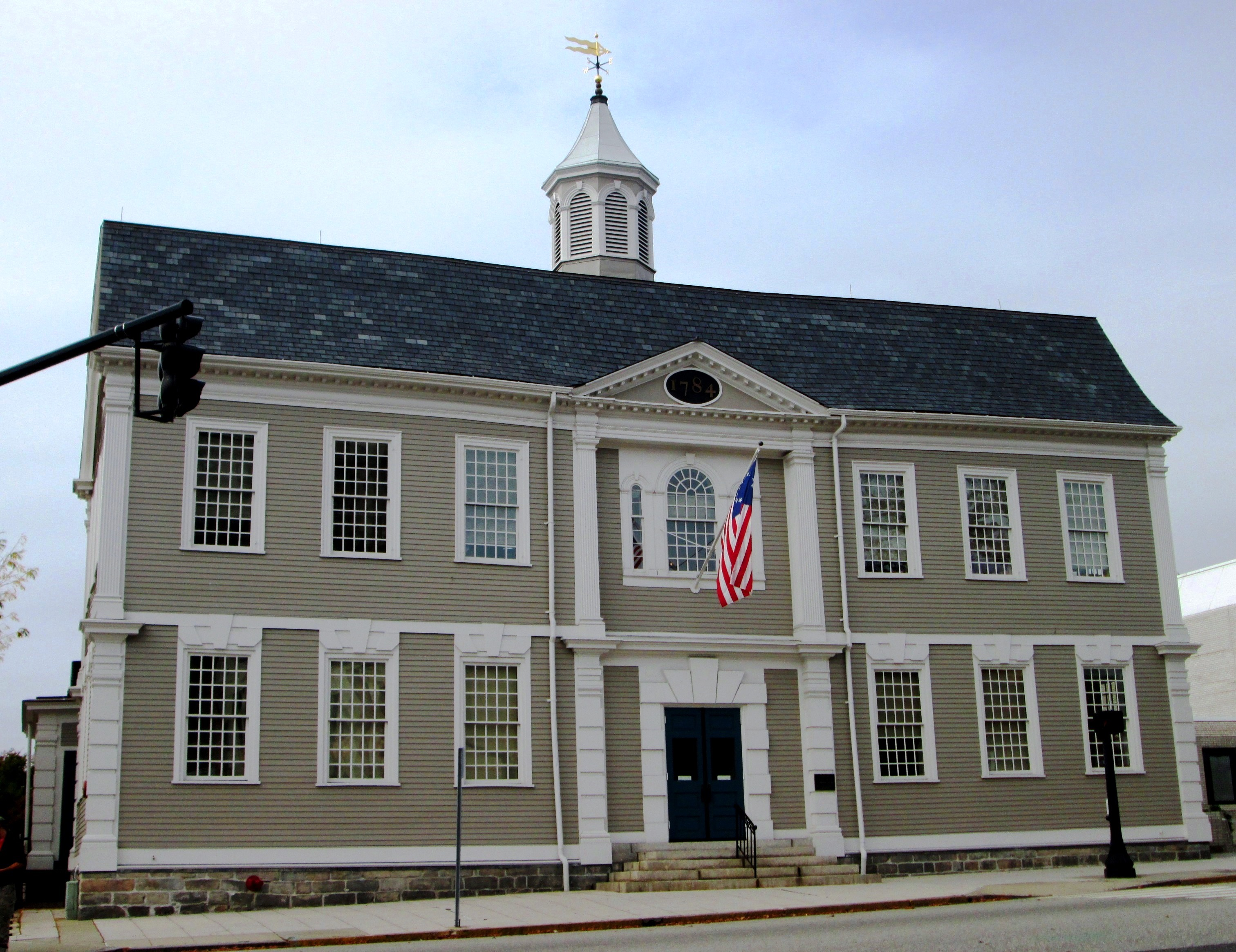 The New London County Courthouse at 70 Huntington Street at the top of State Street in New London, Connecticut, was built in 1784-86, and is attributed to Isaac Fitch. According to a plaque on the building, it is oldest courthouse in Connecticut. The State of Connecticut Superior Court sits there. (Source: [1])